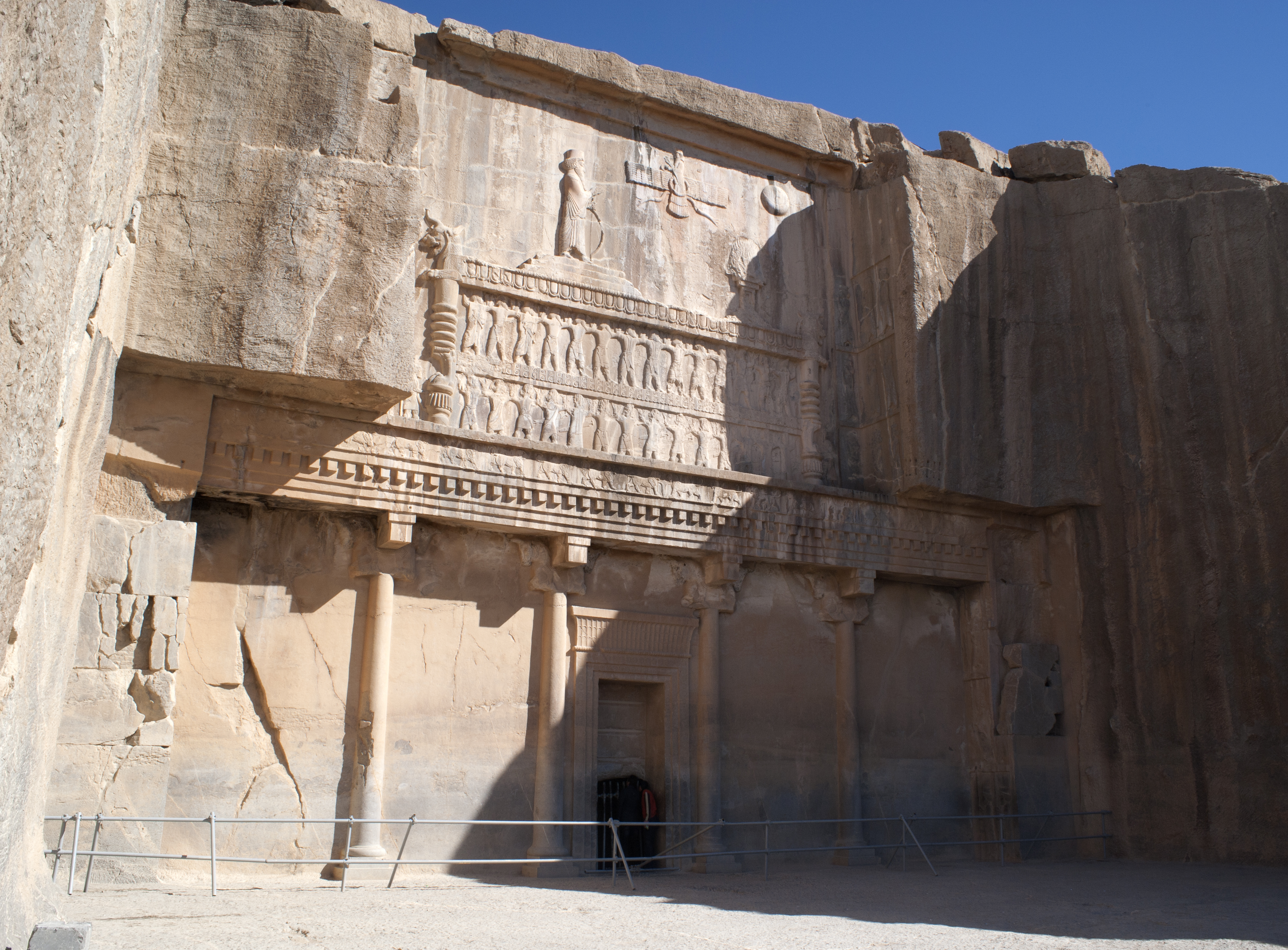 Artaxerxes III tomb Persepolis Iran.